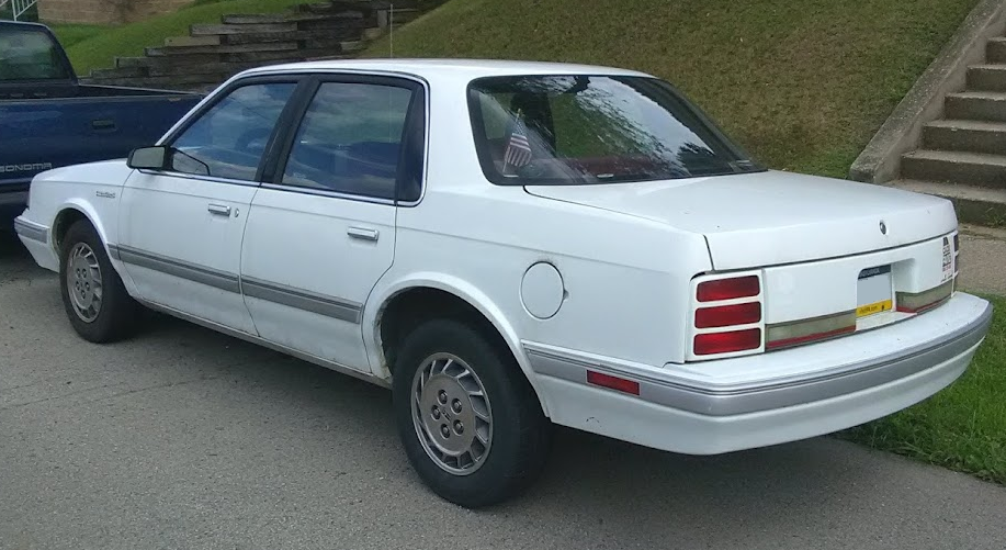 1989-1996 Oldsmobile Cutlass Ciera photographed in Pennsylvania, USA